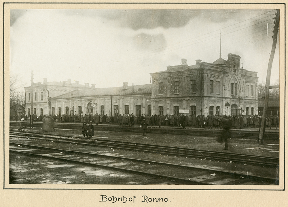 Title: Bahnhof Rowno Alternative Title: Rivne train station Creator: Unknown Date: Spring 1918 Part Of: Der Vormarsch der Flieger Abteilung 27 in der Ukraine Place: Rivne, Rivnens'ka Oblast, Ukraine Description: A photograph of a view of the tracks at the Rivne train station with the platform in the background. Physical Description: 1 photographic print: gelatin silver; 11 x 16 cm. on 34 x 44 cm. mount File: ag1982_0048x_02d_sm_opt.jpg Rights: Please cite Southern Methodist University, Central University Libraries, DeGolyer Library when using this image file. A high-quality version of this file may be obtained for a fee by contacting . Both the full portfolio and the 263 individual photographs, scanned at a higher resolution, are available. View the full portfolio: View the individual photographs: For more information, see: View Europe, India, and Asia: Photographs, Manuscripts, and Imprints